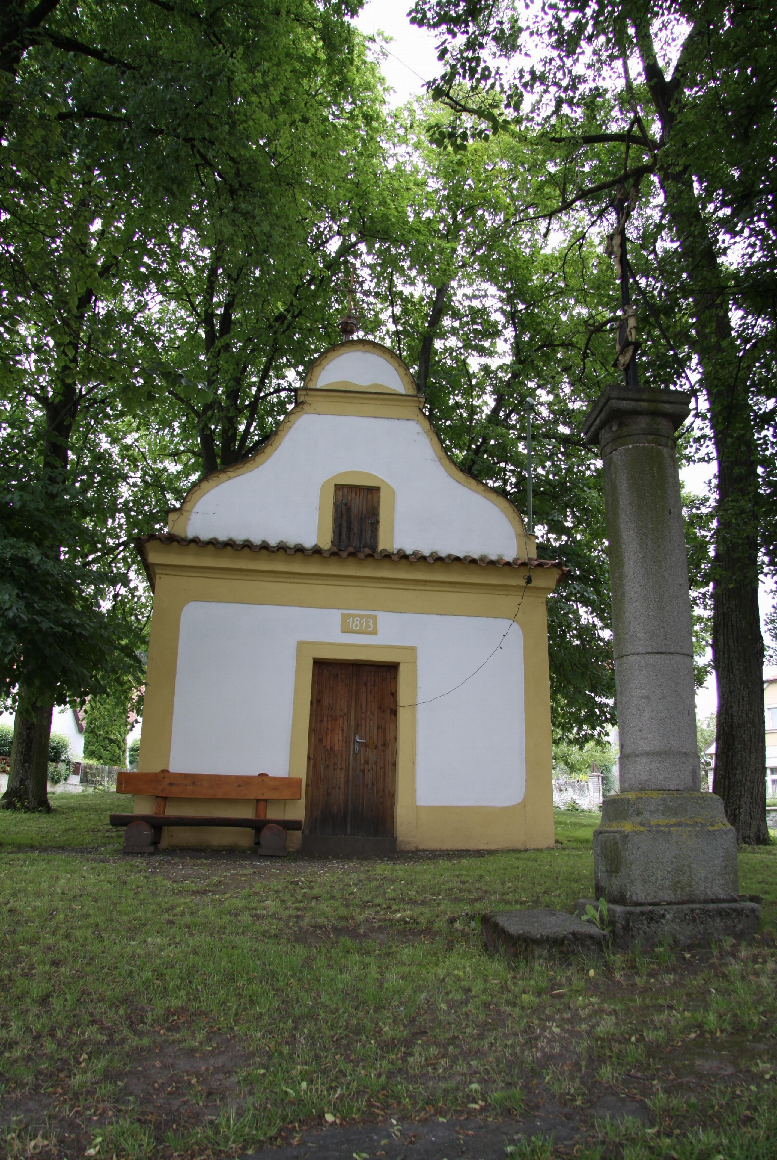 Velké Hydčice village in Klatovy District, Czech Republic. This photograph was taken within the scope of the 'Czech Municipalities Photographs' grant.